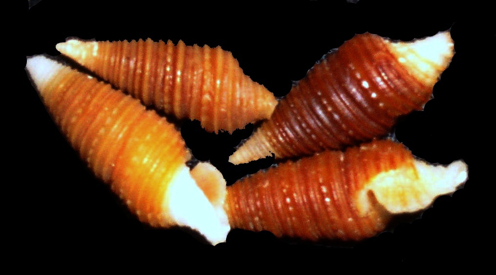 Turridrupa jubata from Mindanao, the Philippines